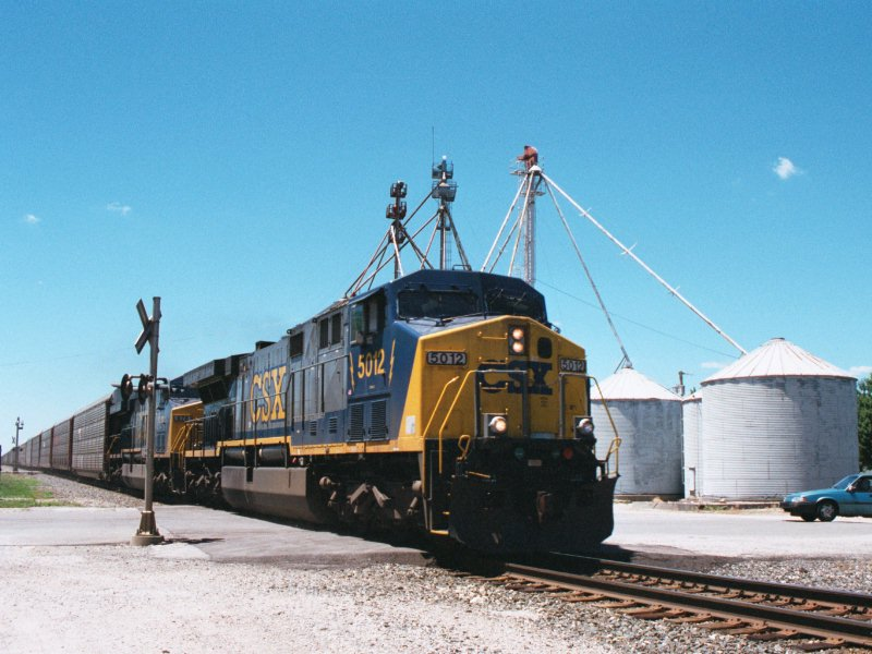 CSX #5012 with autorack train passing grain elevator in Caledonia, Ohio in July 2011.